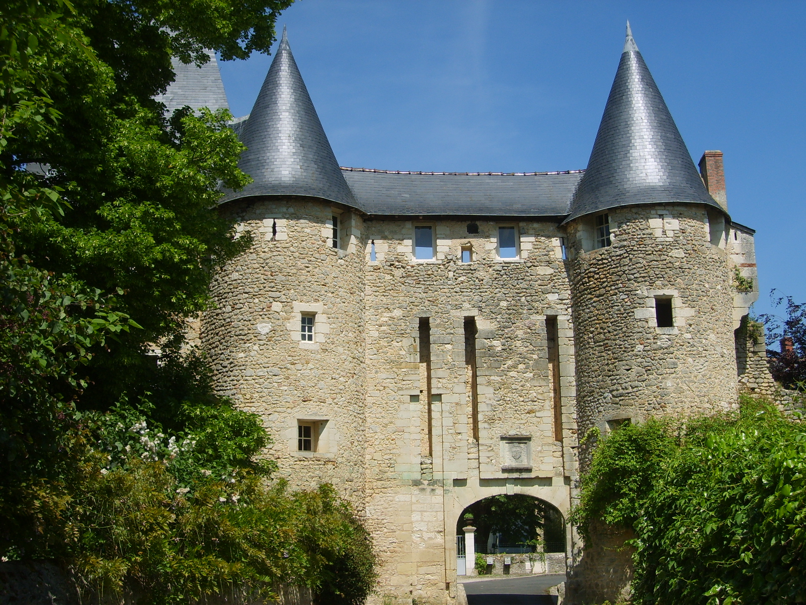 Abbey of Villeloin-Coulangé (Indre-et-Loire) in France. Publish by= User:Stephane8888 Self made